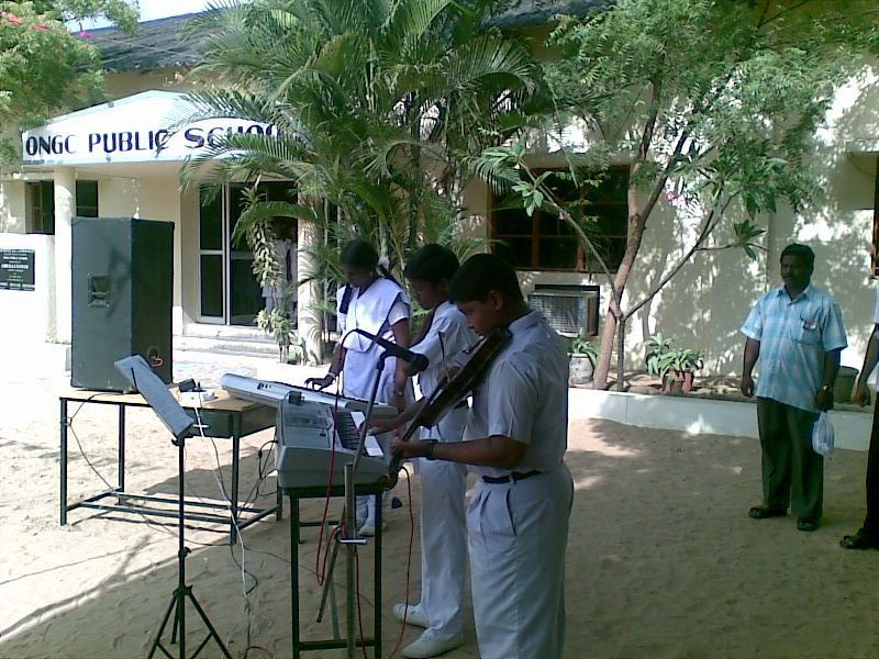 On a School occasion!!